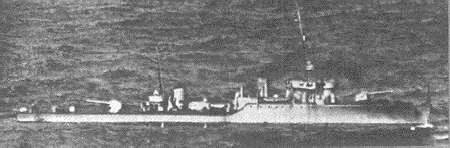 The Soviet project 2 guard ship Shtorm.